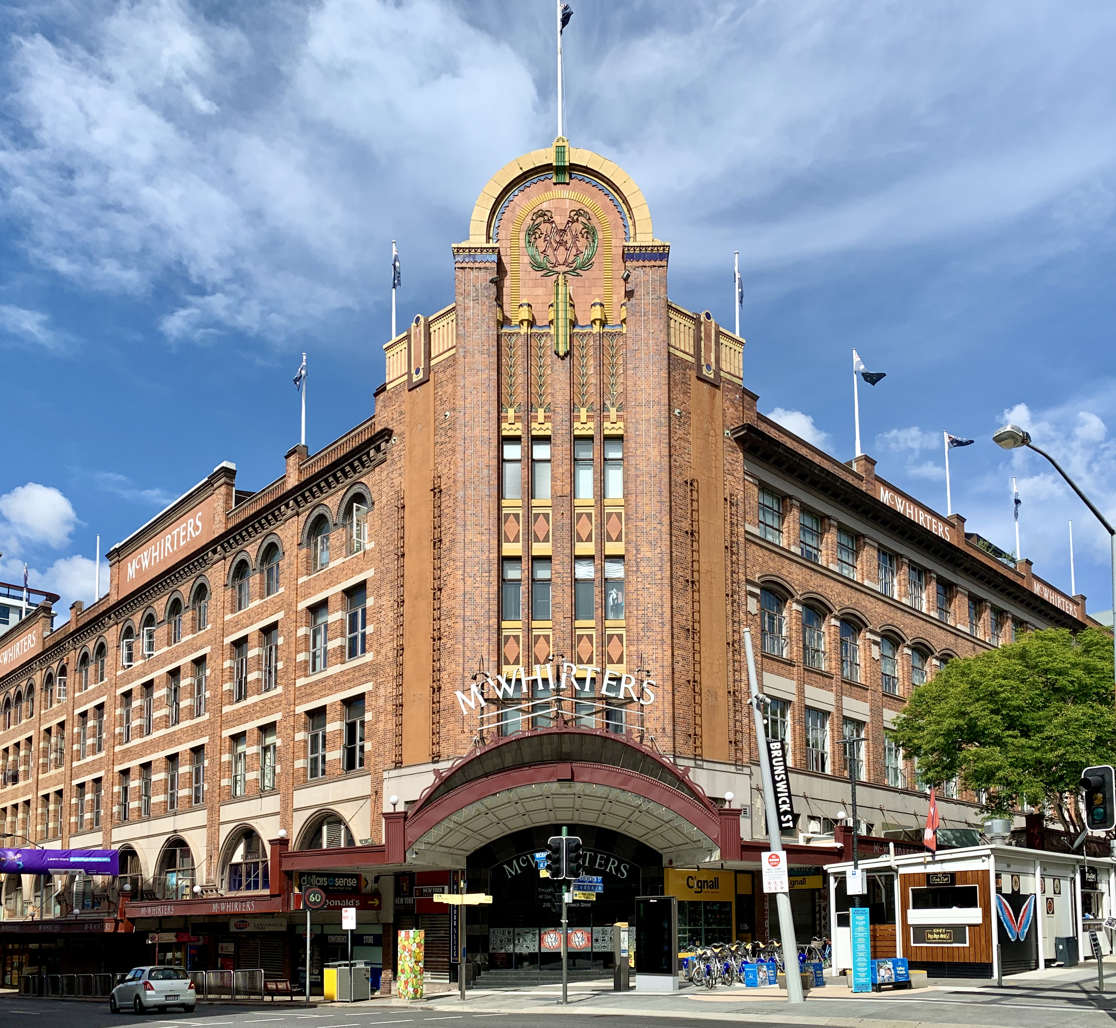 McWhirters shopping centre, Fortiude Valley, Queensland, 2020